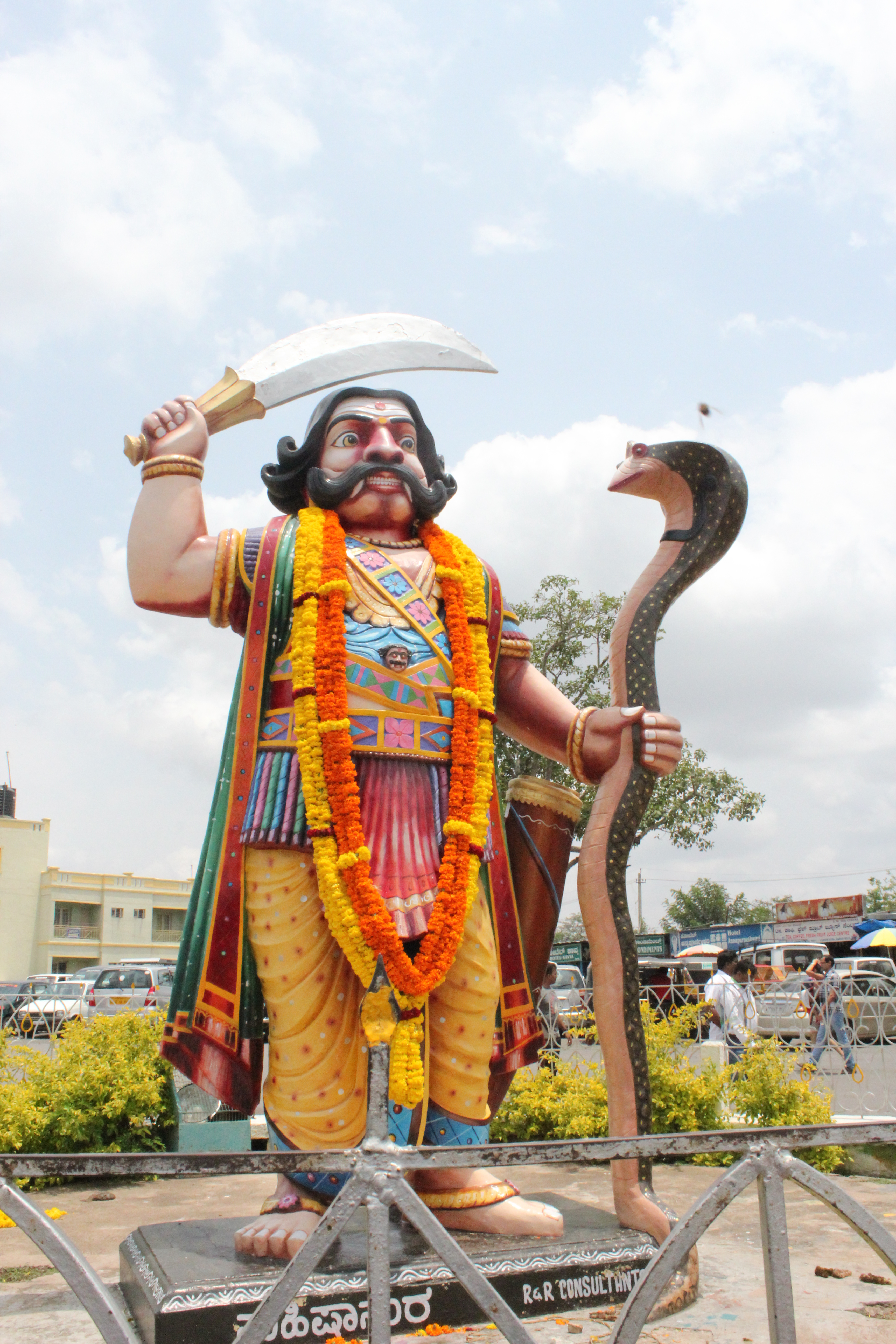 Statue of Mahishasura near Chamundeshvari Temple on Chamundeshvari Hills, Mysore, Karnataka, India.